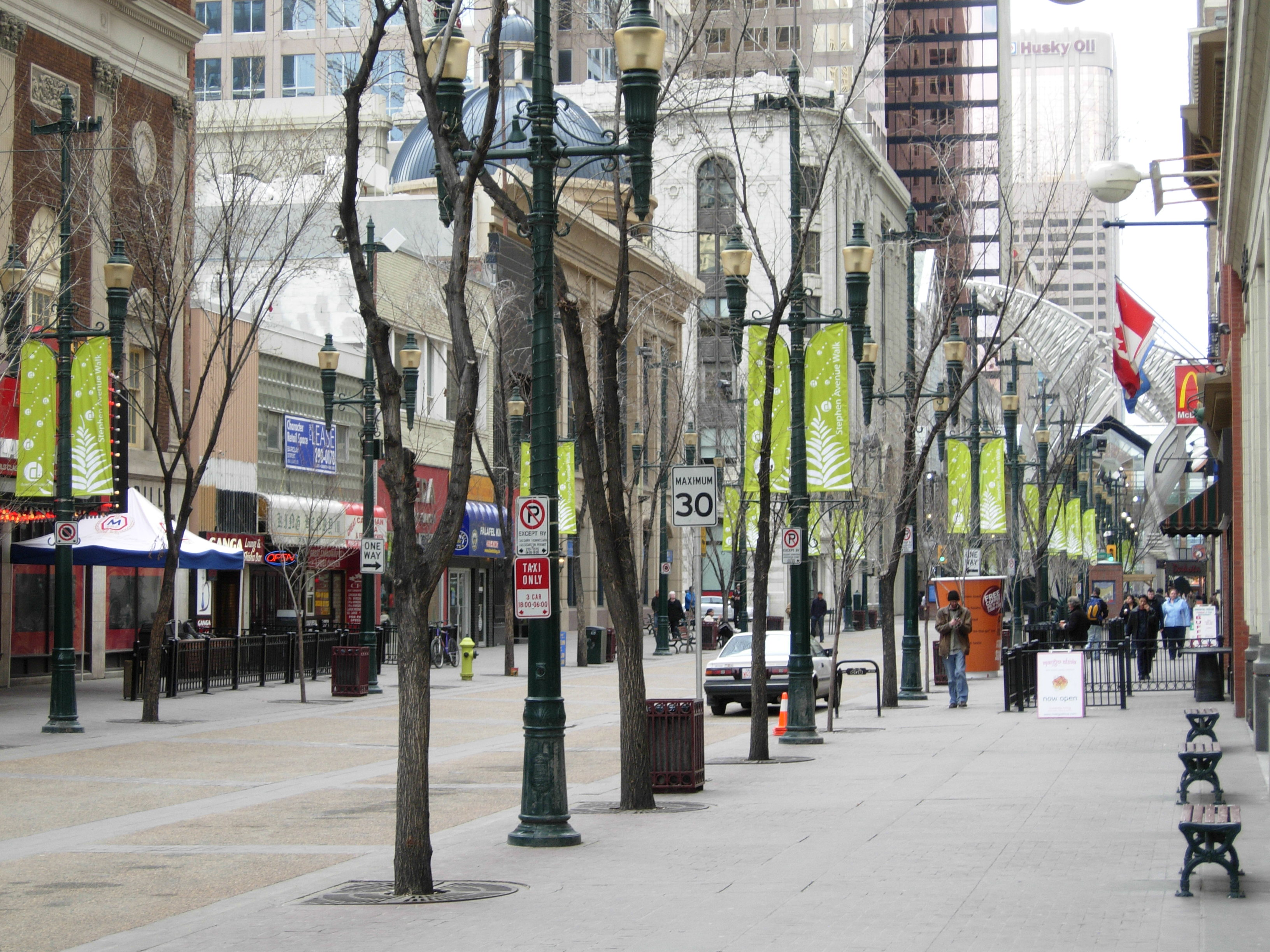 Stephen Avenue facing west in early spring.